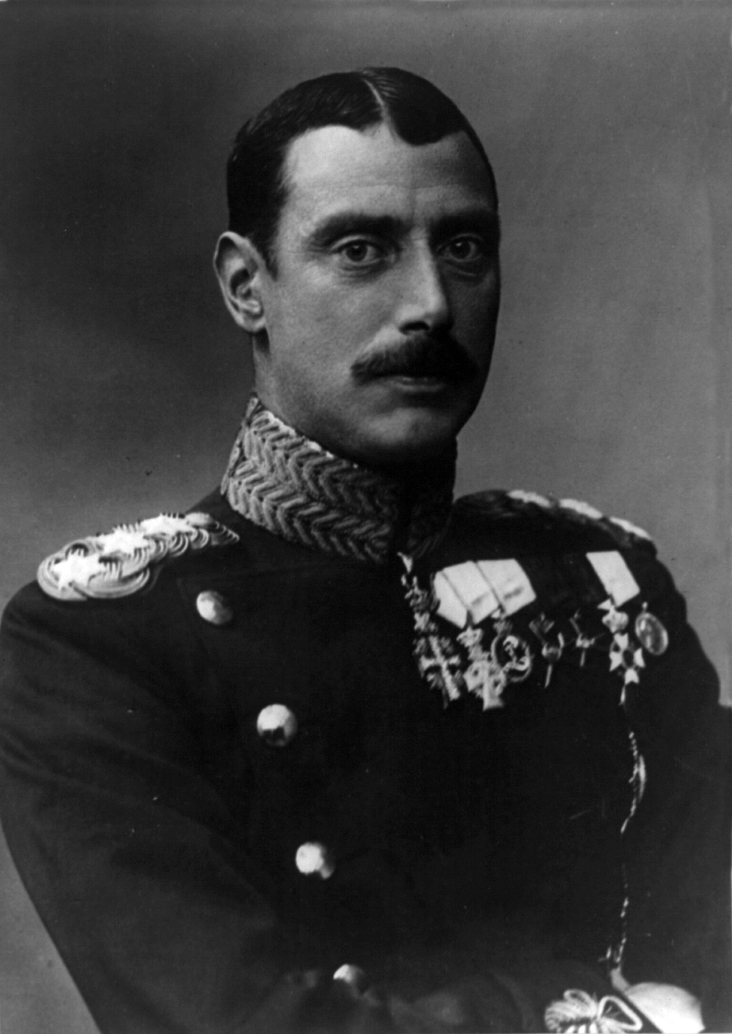 King Christian X of Denmark